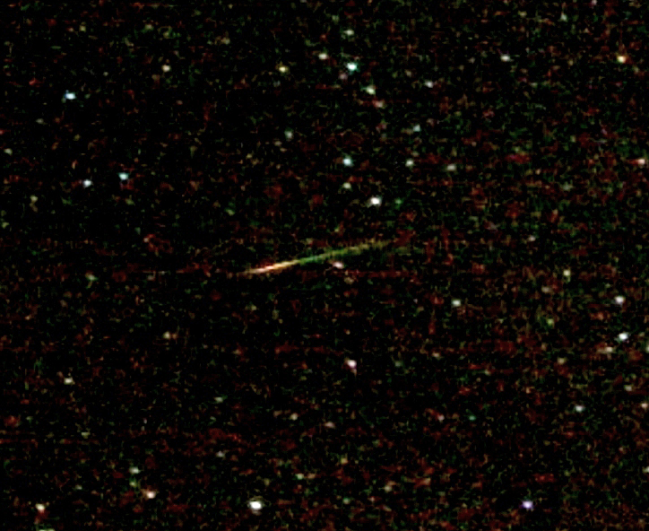 A green and red Orionid meteor